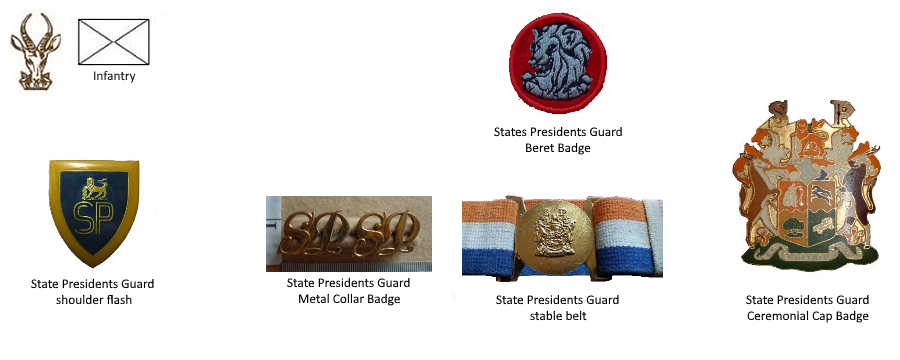 Regimental Badges, Insignia